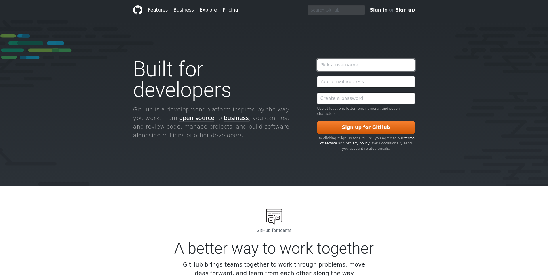 Github front page